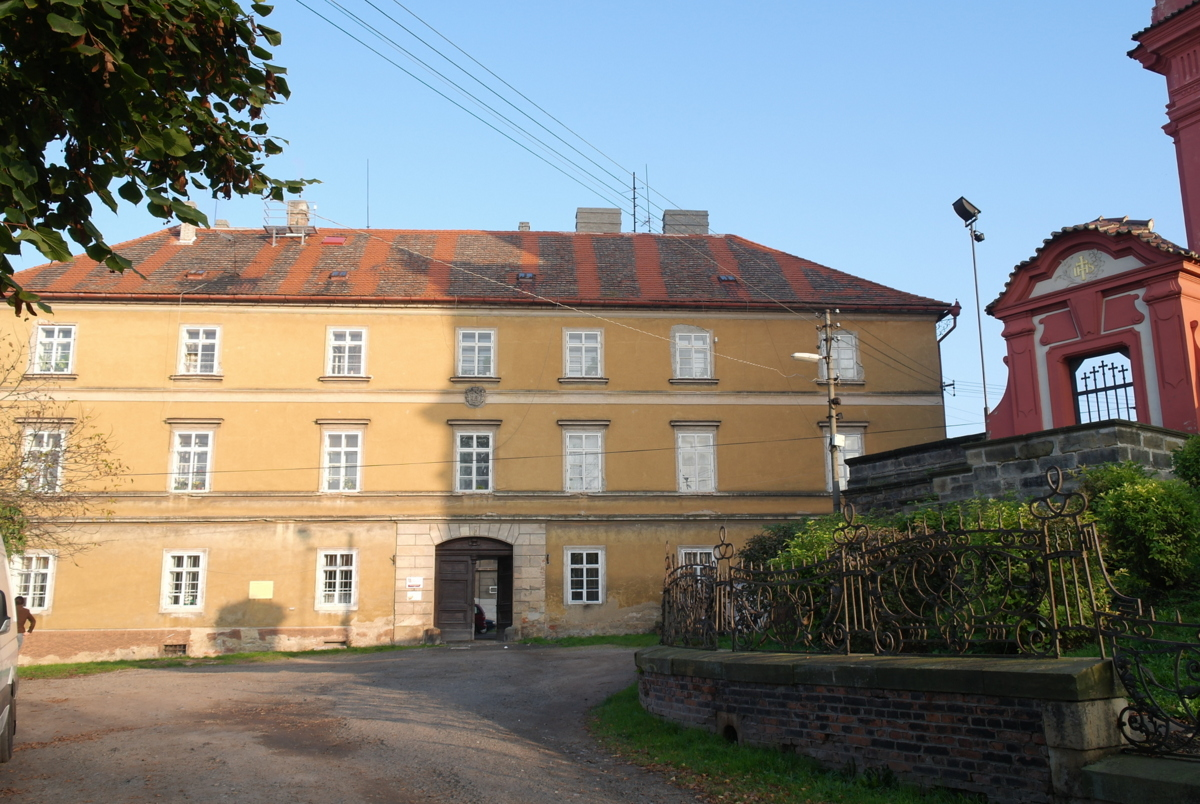 Zlonice castle, square Pod Lipami 1, Zlonice.